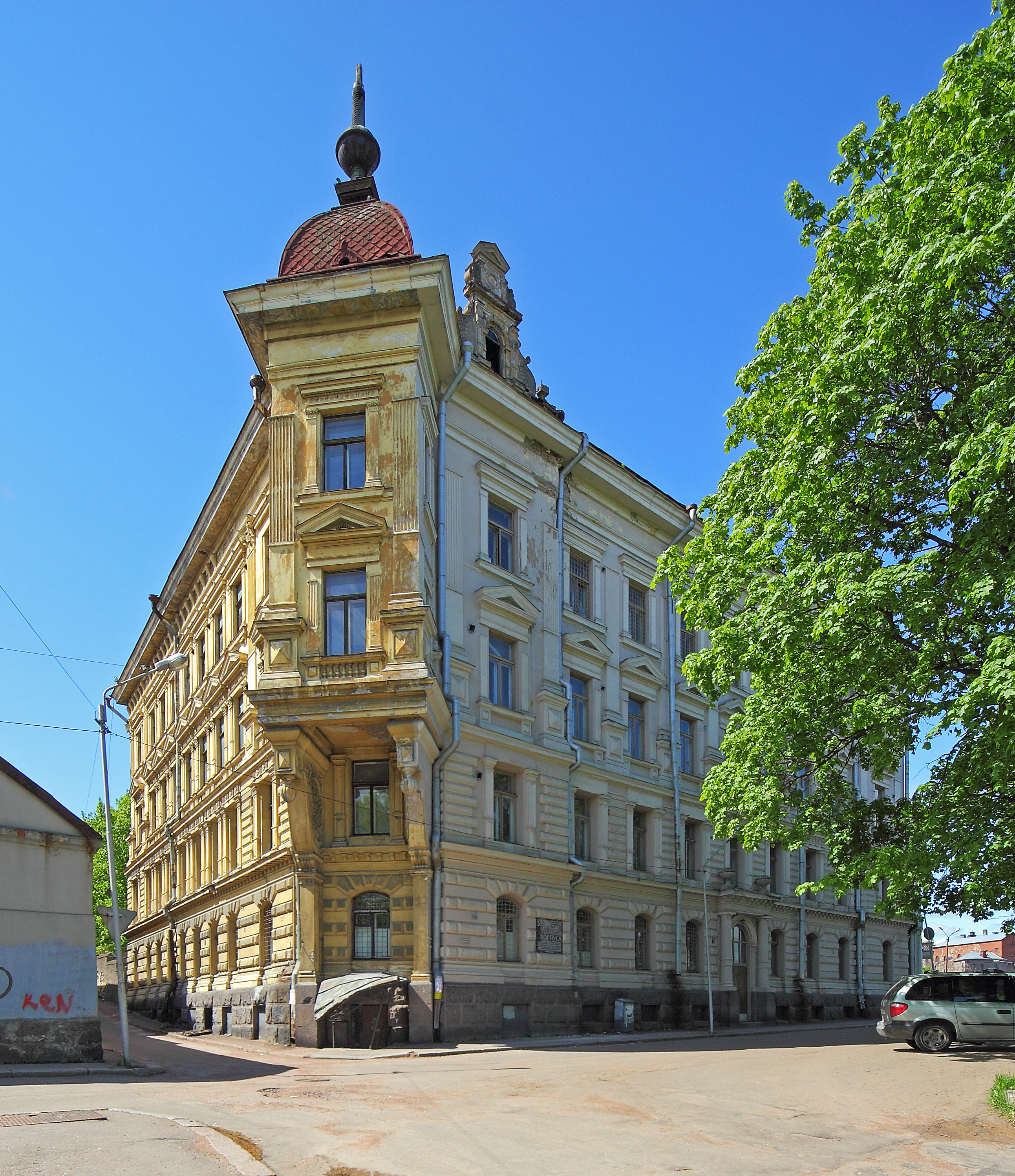 Vyborg (former Viipuri), Leningrad Oblast, Russia. An old house at Severny Val Street.